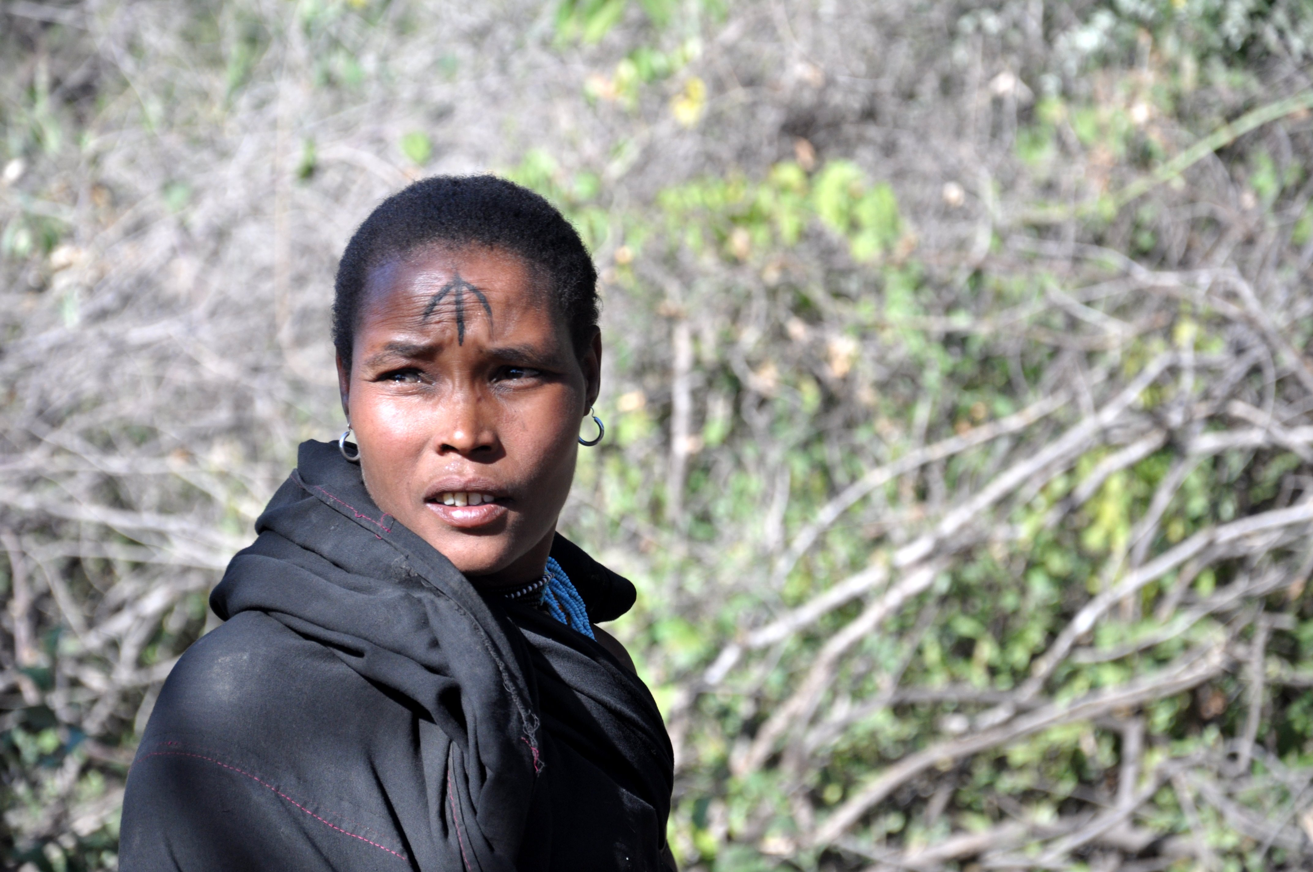 Datoga woman with tattoo on her forehead - Lake Eyasi, Tanzania